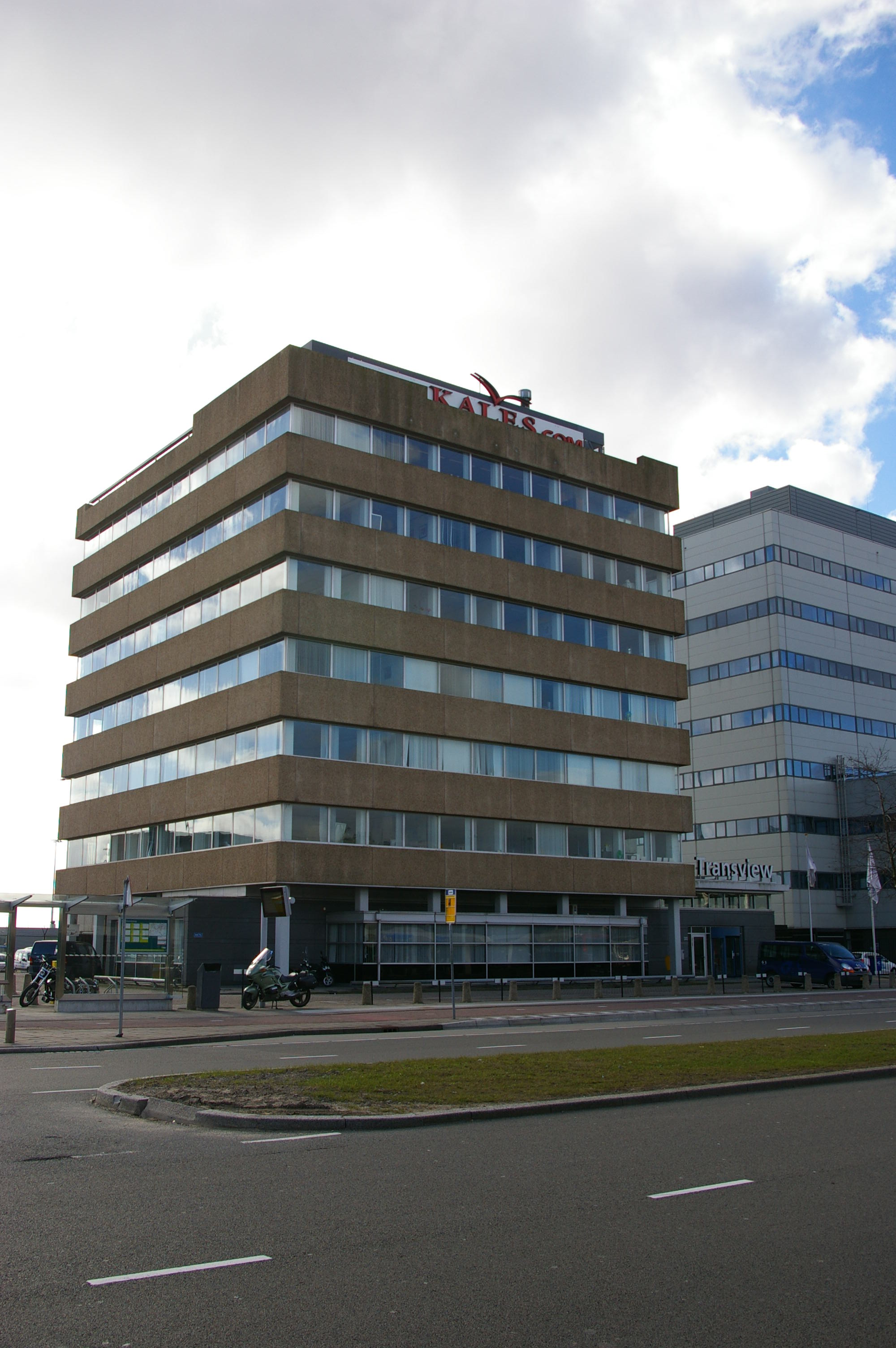 Former Martinair office, Havenmeesterweg, Schiphol, the Netherlands. Picture taken at the request of user WhisperToMe.